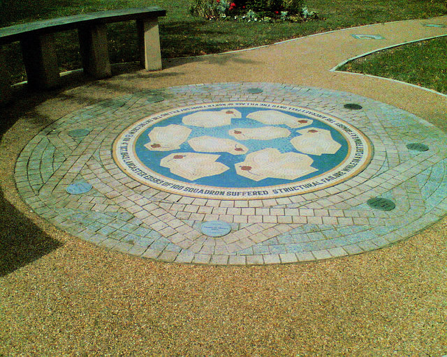 Mosaic commemorating the crew of the Lancaster Bomber. Around the edge of the mosaic there are eight roundels with the names of the crew who were killed. In the centre, if you look closely, there are eight doves, each with a red poppy in its beak.